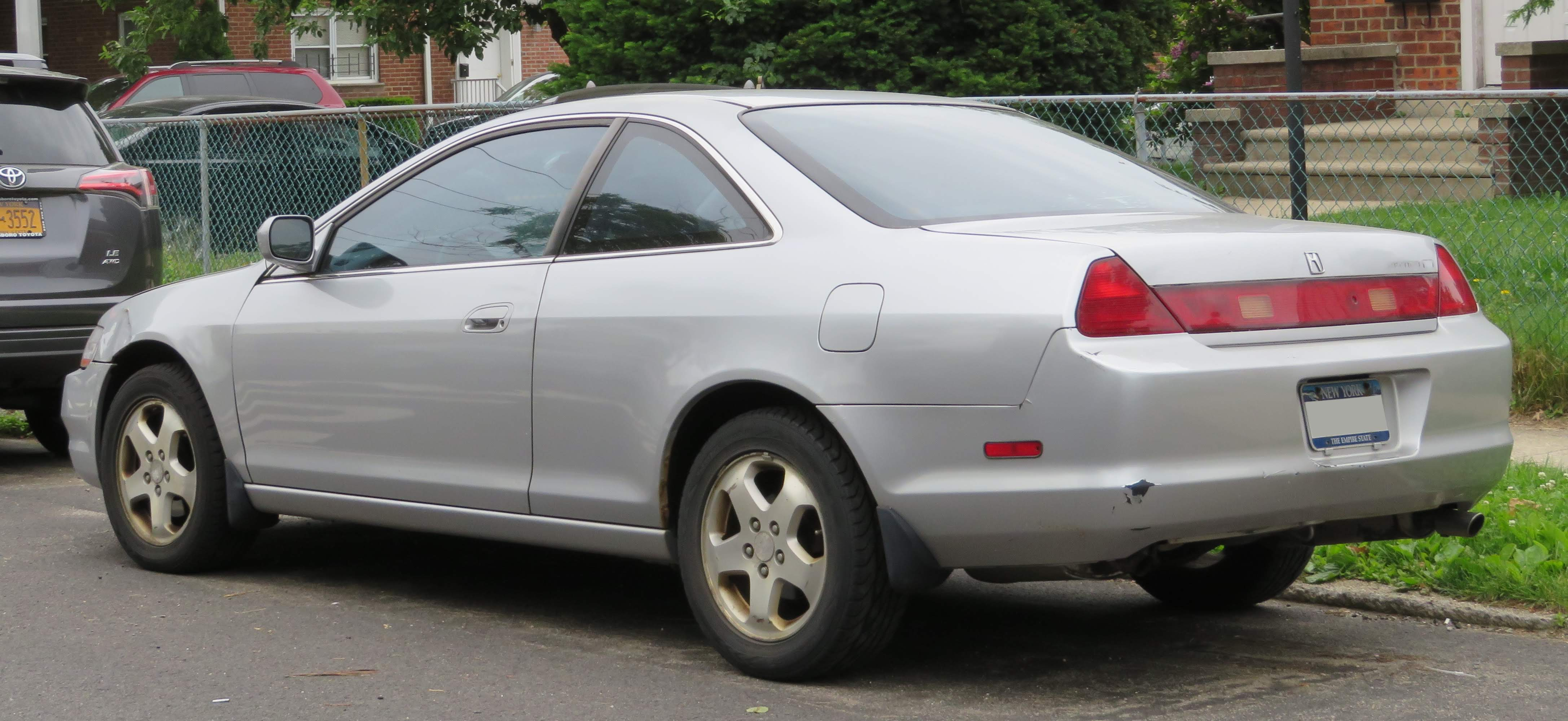 Photographed in Queens, New York